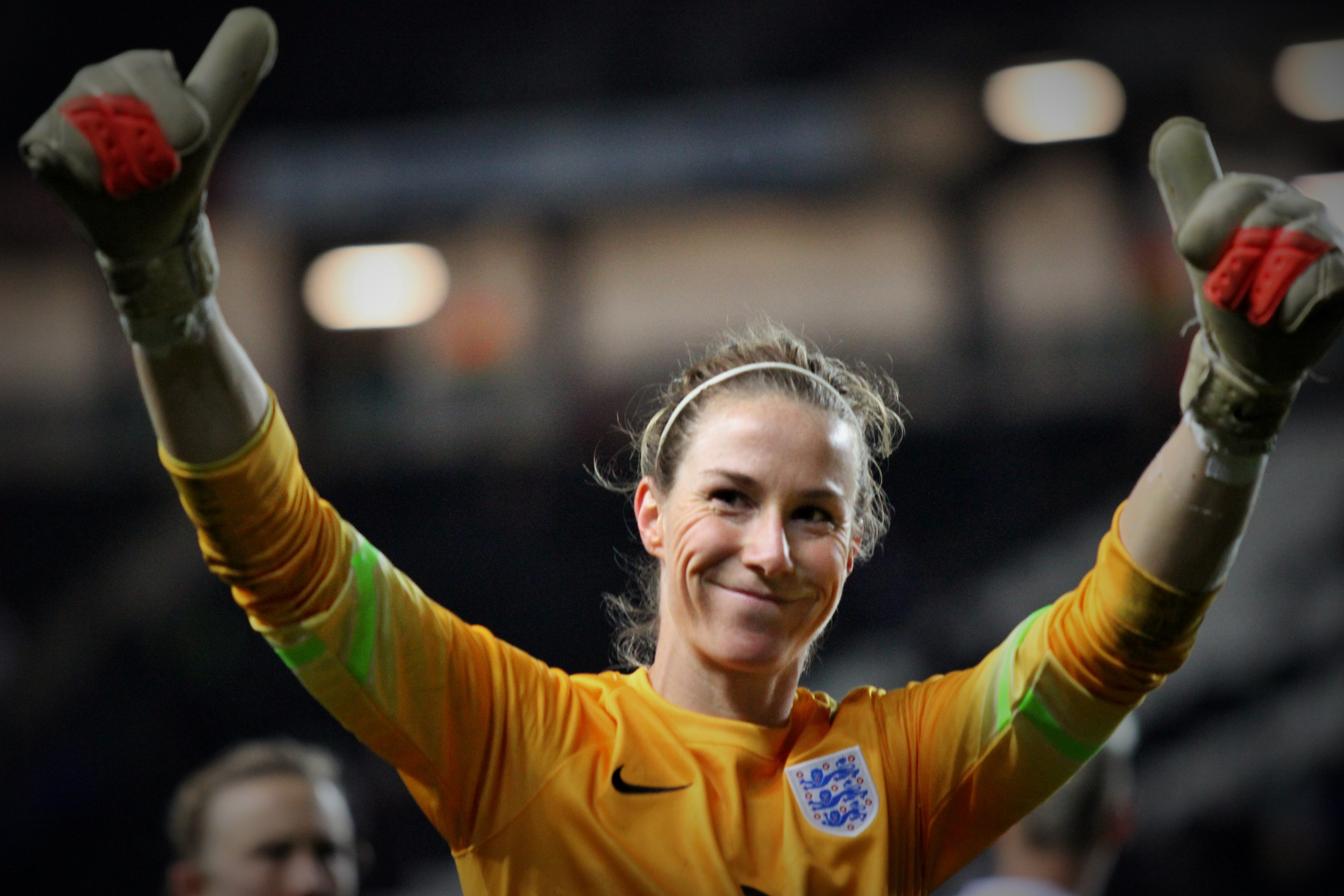 Karen Bardsley of England Women's thanks the fans for their support at full time.